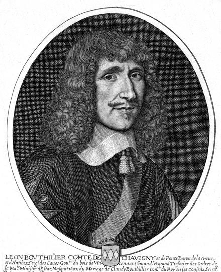 Léon Bouthillier, comte de Chavigny (March 28, 1608 – October 11, 1652). Engraving by Pierre Daret (1610 - 1675)